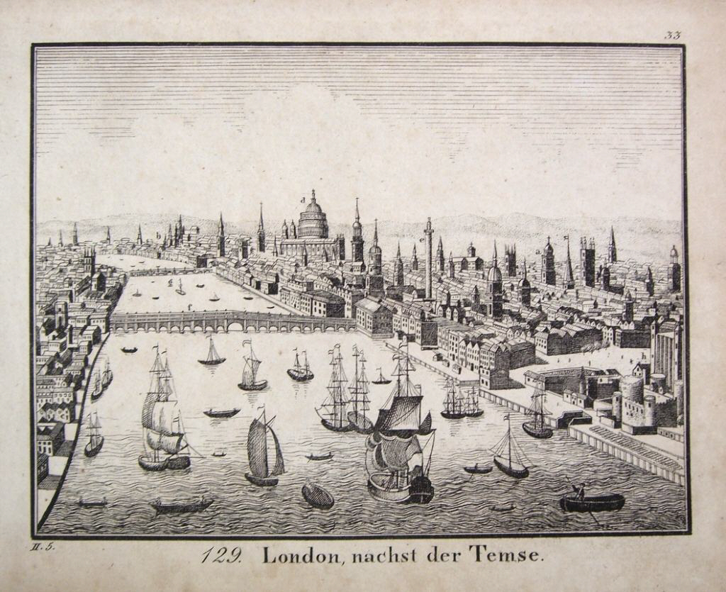 "London, nächst der Temse" (London, at the Thames), copper engraving, 19th century